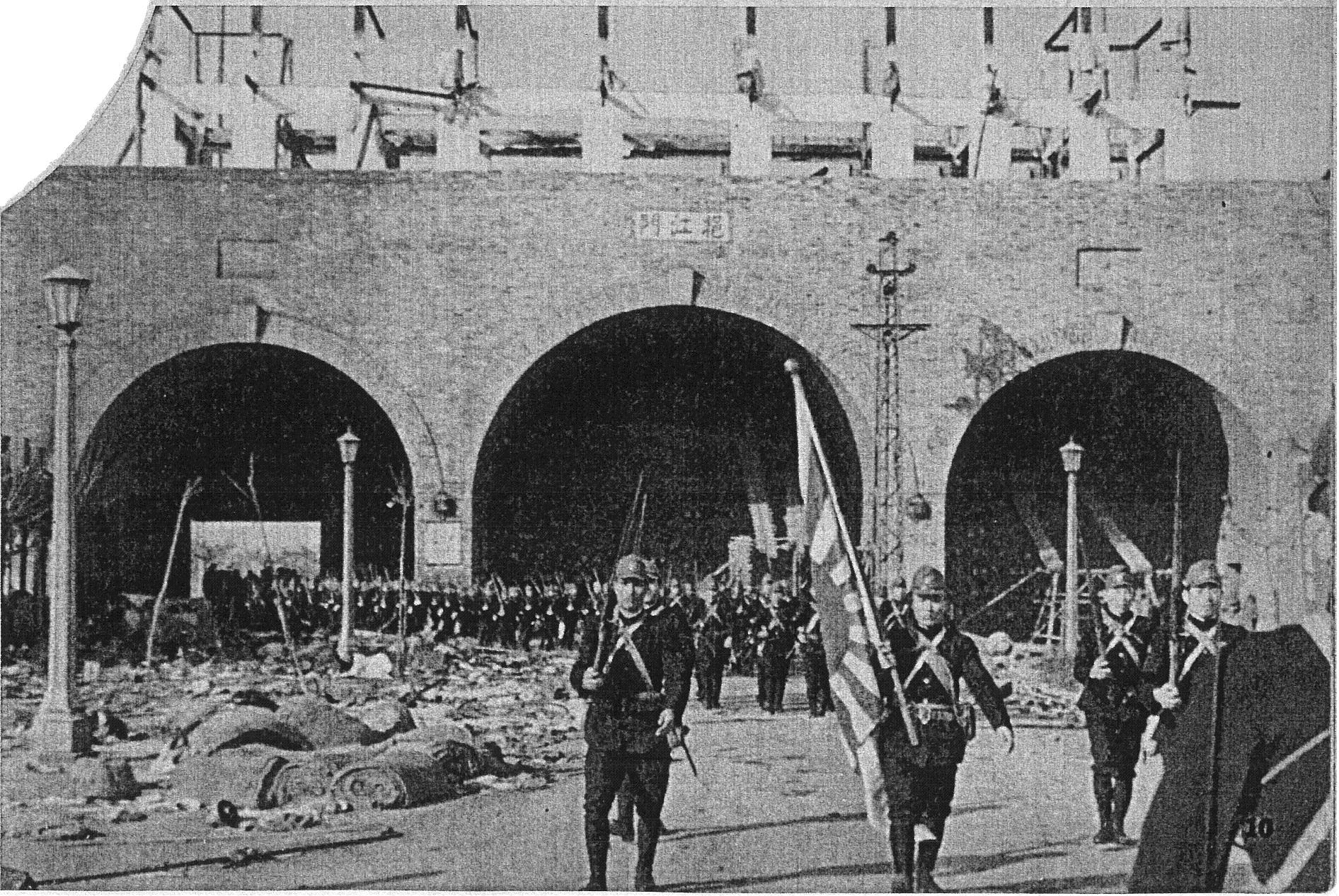 Japanese Navy land at Xiaguan with the lead of Commander Hasegawa and enter into Nanking Castle through YiJiang Gate upholding the naval ensign.(December 17, 1937)